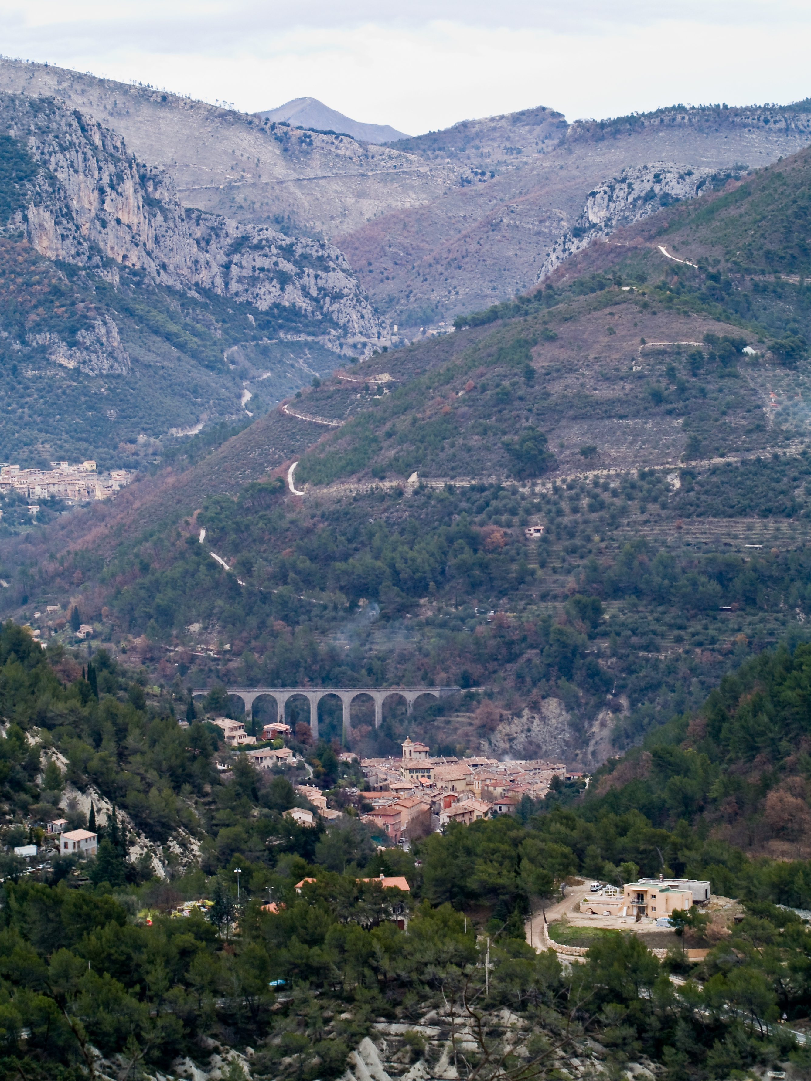 L'Escarène and its surrondings (Alpes-Maritimes, France)